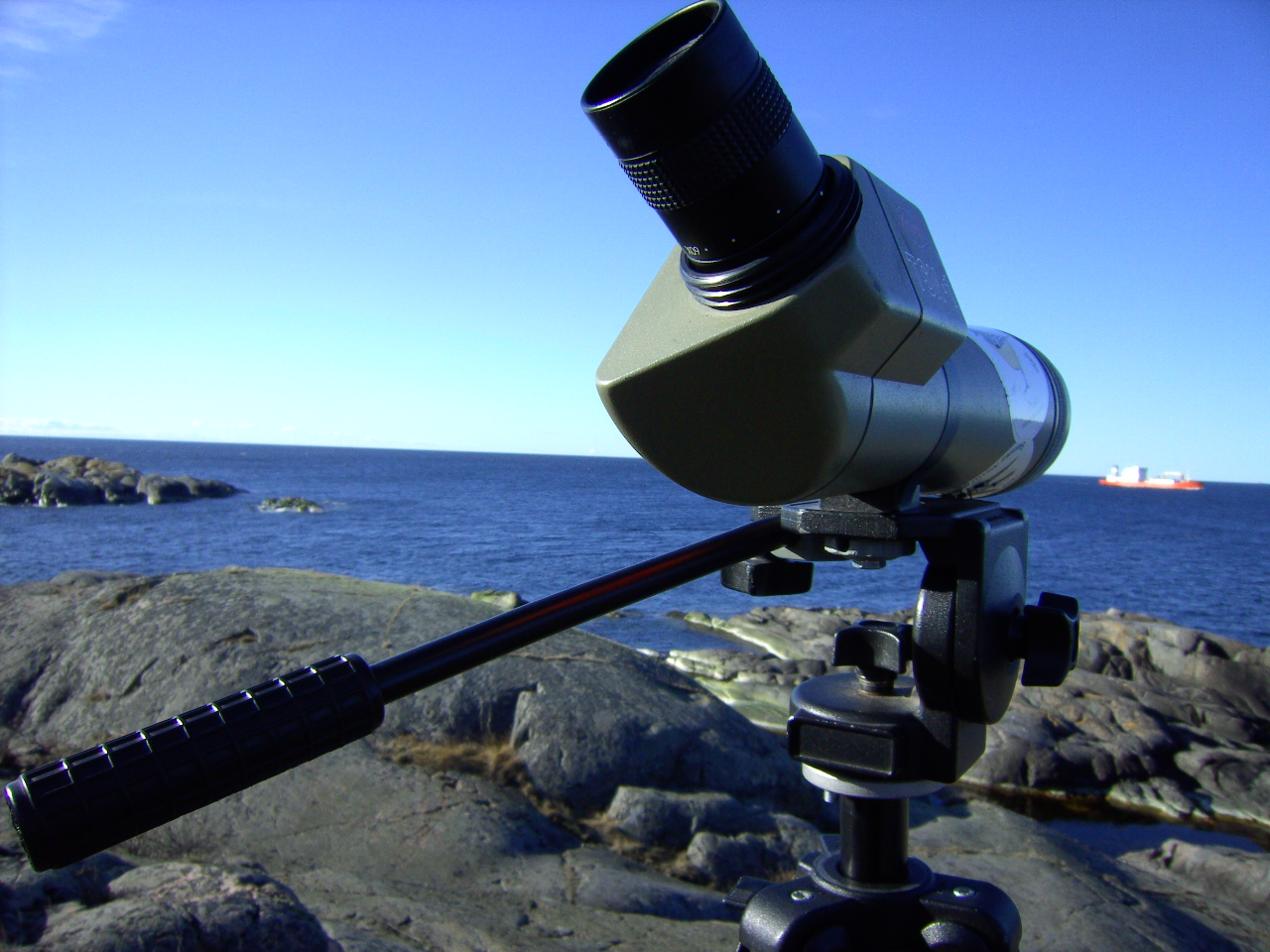 Birdwatching with spotting scope at the southern cape of the island Öja (Landsort), south of Nynäshamn in Södermanland in Stockholm County in Sweden. The photography was shot 04:52 in the morning.